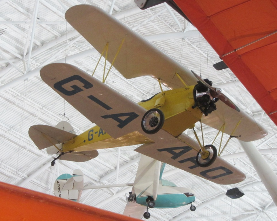 Arrow Sport A2-60